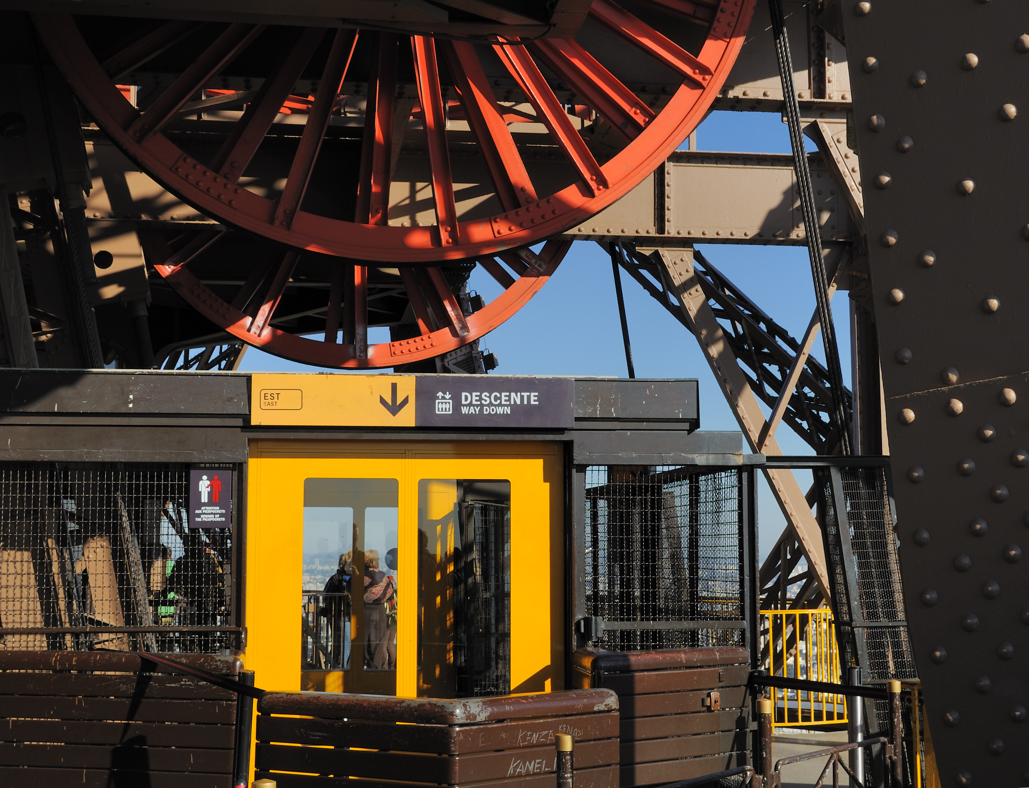 Eiffel Tower: elevator